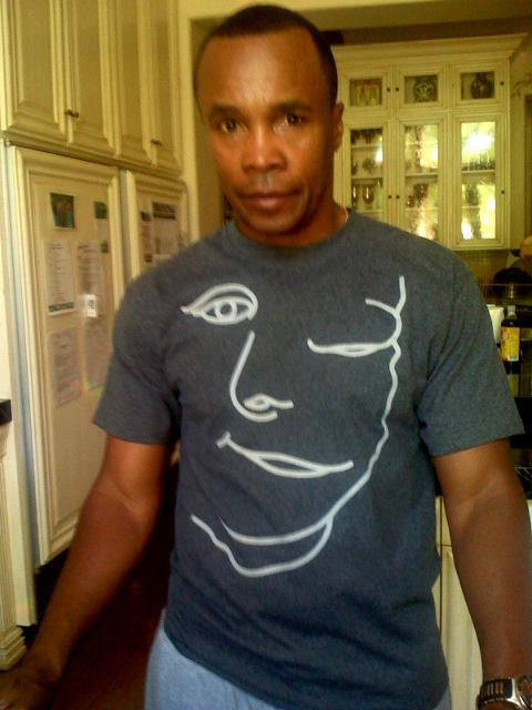 African American boxer Sugar Ray Leonard